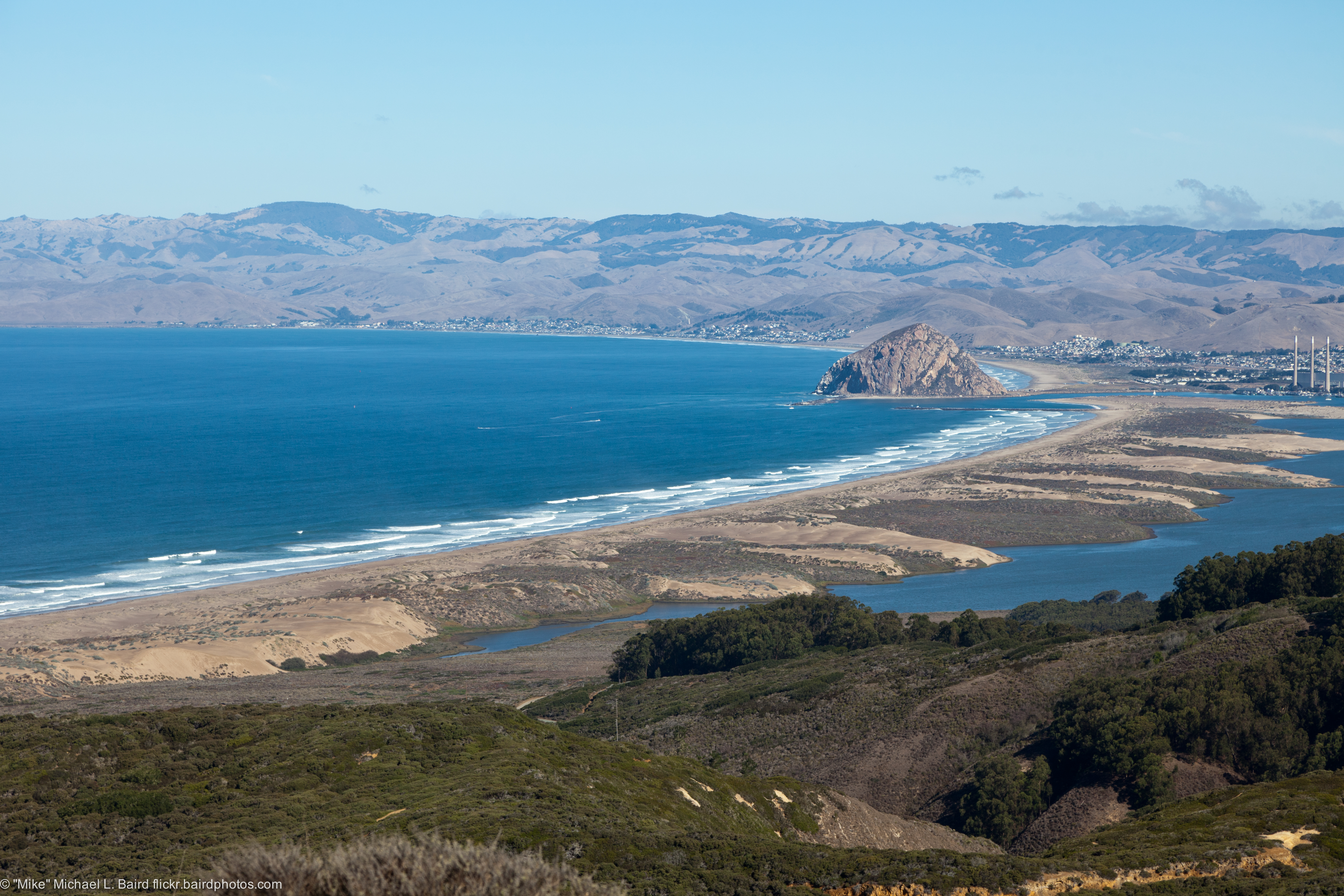 View from the summit of Hazard Peak in Montana de Oro State Park, San Luis Obispo County, California (from a set of 5). View of: Estero Bay in the Pacific Ocean; Morro Bay lagoon, estuary, sandspit, and inlet; the City of Morro Bay; Baywood-Los Osos; the Morros; and in the distance the Santa Lucia Mountains. Hazard Peak Trail CA State Parks Docent-led, Hazard Peak Work-out Hike, Friday 07 October 2011, Los Osos, CA. This is a CA State Parks Adventures with Nature (AWN) walk. The desc. says “This hike is a great work-out. We will keep a good pace. Trail is well maintained. 6 miles round trip, and 1,000 feel elevation gain. Great views from the top. Approx. 2 1/2 hours. Bring water and a snack. Wear hat, sun screen, and sturdy shoes or boots. Meet at the Hazard Peak parking lot 2.3 miles from entrance to Montaña de Oro (MDO) State Park. (Hike) Active to Strenuous.” Credits Photo by "Mike" Michael L. Baird, mike [at} mikebaird d o t com, ; Shooting an iPhone 3GS. To use this photo, see access, attribution, and commenting recommendations at - Please add comments/notes/tags to add to or correct information, identification, etc.